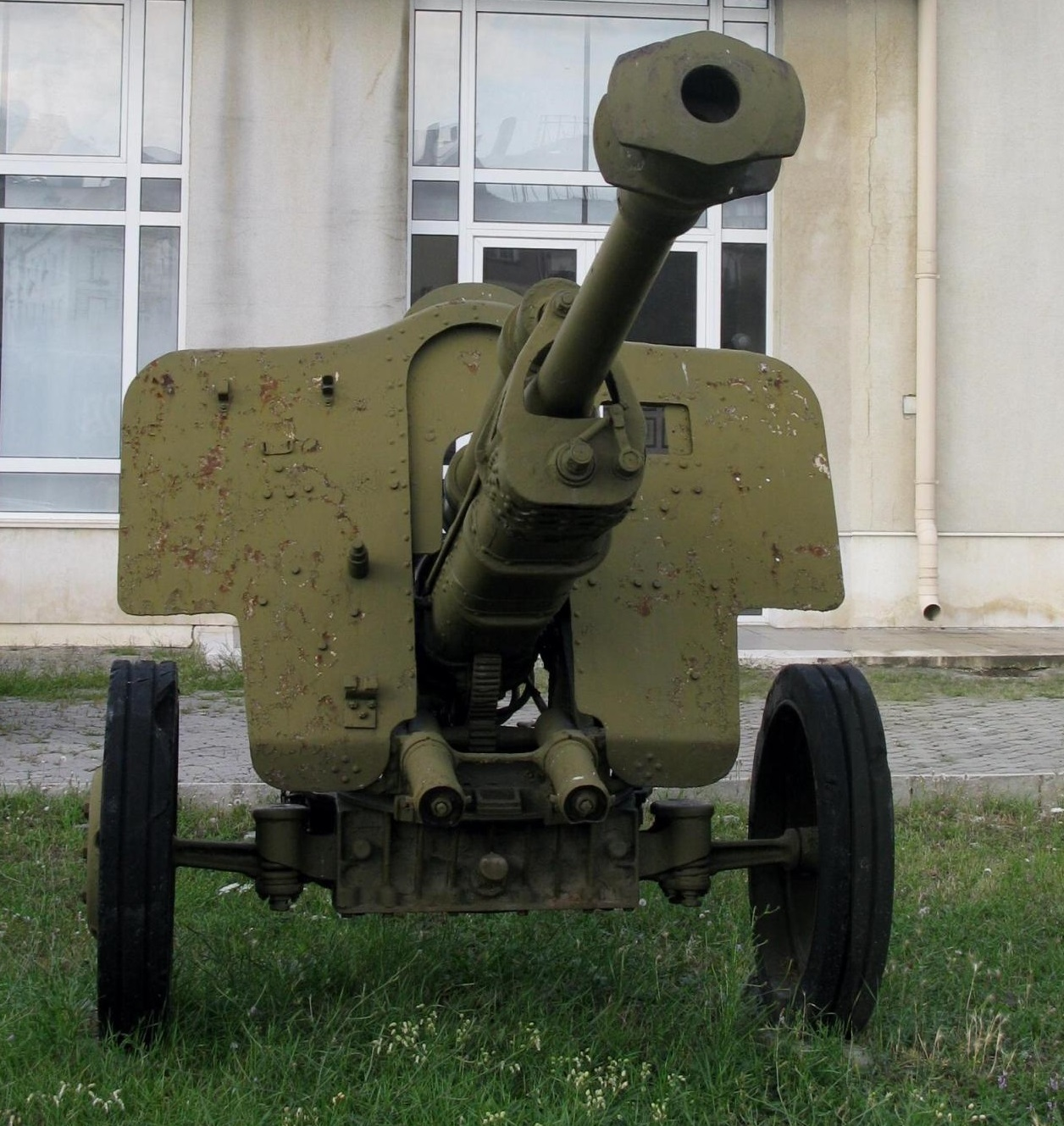 A 7,6 cm FK 39 gun in National Museum of Military History (Bulgaria), Sofia.